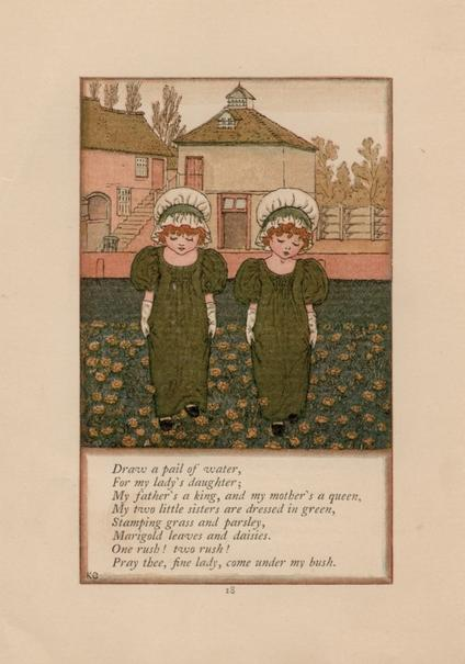 Illustrated nursery rhyme. My two little sisters are dressed in green. Showing smoked dresses. From Mother Goose or the Old Nursery Rhymes. Routledge and sons 1881